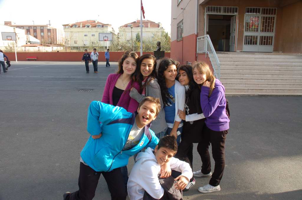 Turkish kids at school in Istanbul.